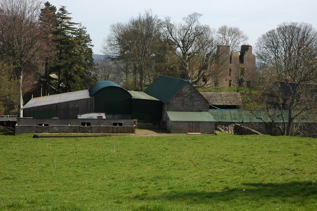 Urishay Castle Farm and Urishay Castle The structure on the site of Urishay Castle is in fact a ruined house, possibly dating from the 17th or 18th century, rather than a castle. The ruin does stand on the site of an earlier castle and a motte and bailey remain.